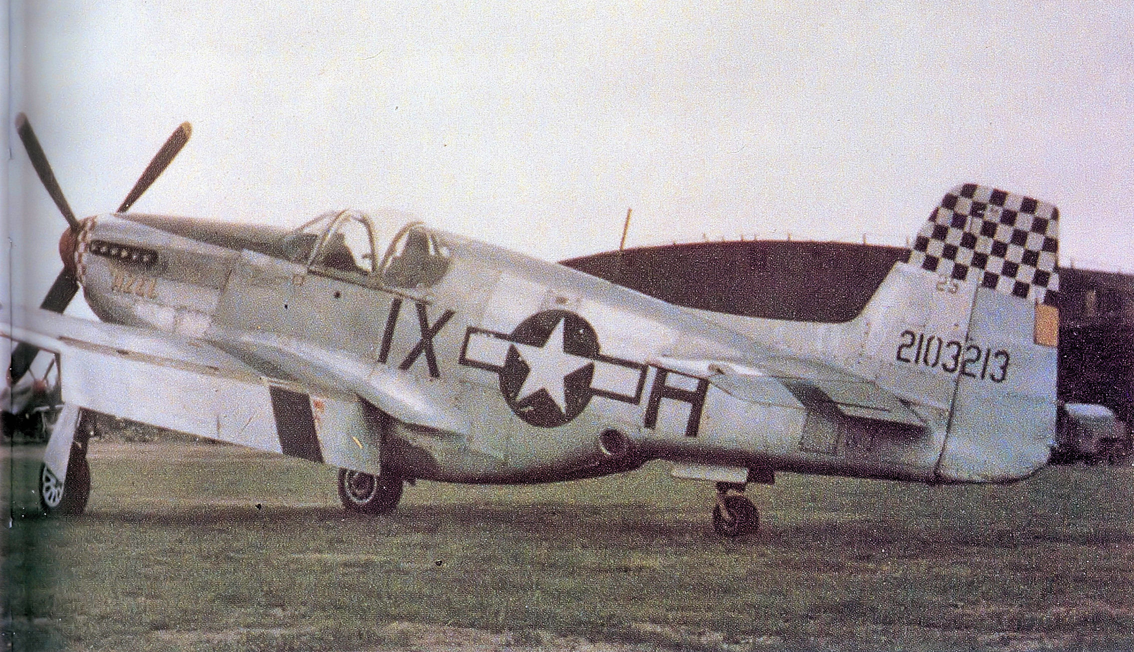 162d Tactical Reconnaissance Squadron North American P-51C-1-NT Mustang 42-103213. Aircraft scrapped in Germany, Apr 15, 1946